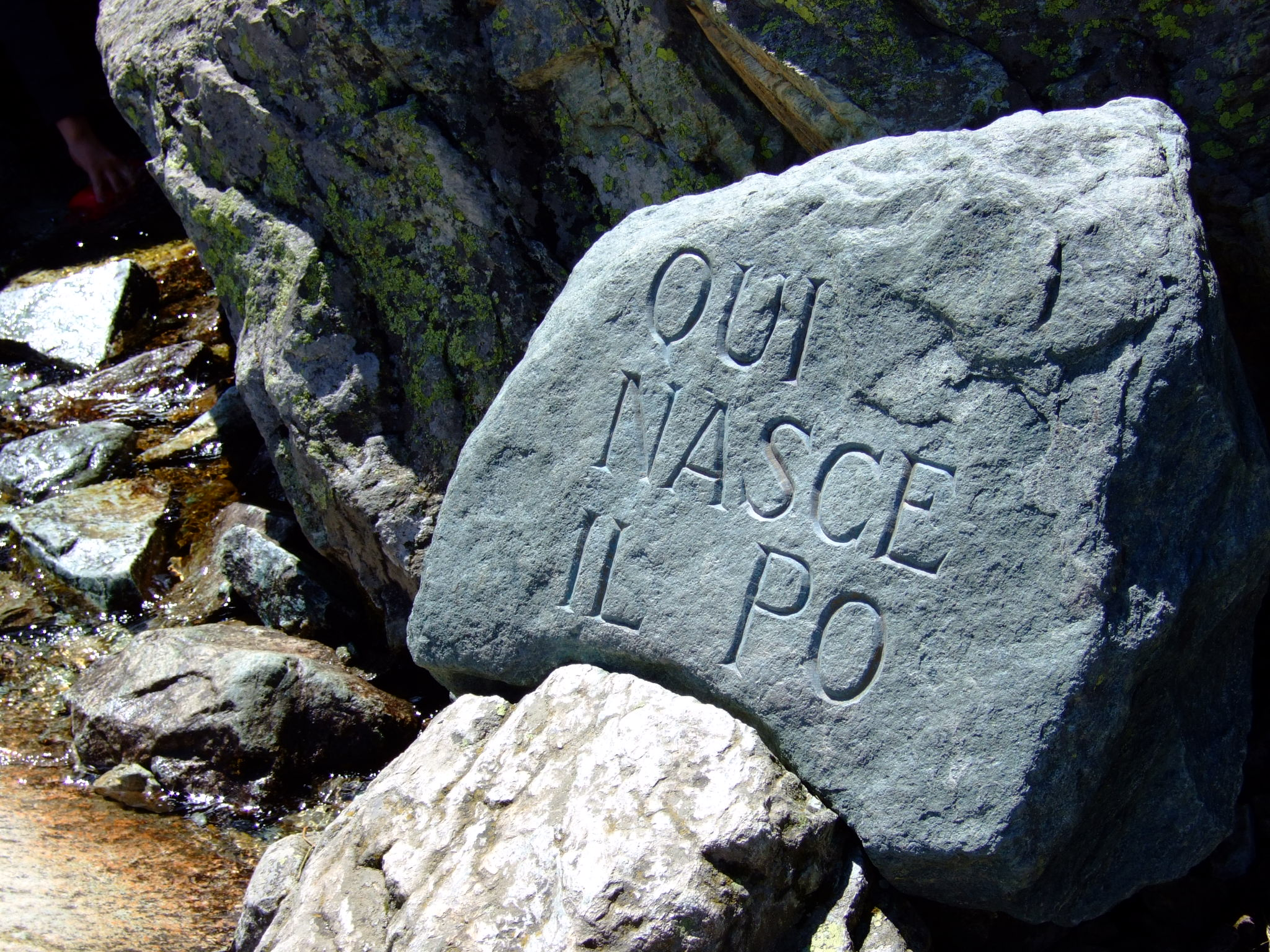 Po river springs